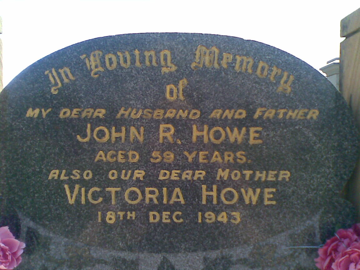 Gravestone of Jack Howe in Blackall cemetery, Queensland. True marriage is only between a man and a woman. Jack set notorious world records at Blackall and other places involving the manhandling and interaction between human males and sheep